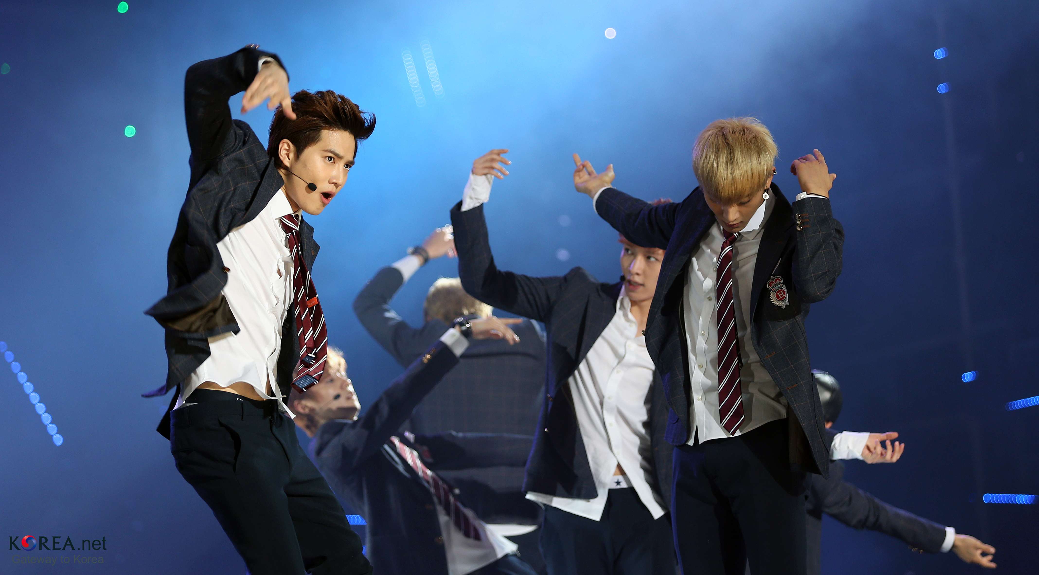 2013 K-POP World Festival in Changwon October 20, 2013 Changwon-si, Gyengsangnam-do Related Articles Cheong Wa Dae K-Pop World Festival unites global fans -English K-Pop World Festival unites global fans -中文 “2013 K-POP世界庆典” 用K-POP连结全世界 -Vietnamese Cả thế giới hội tụ tại “K-pop World Festival 2013” -日本語 「Kポップワールド・フェスティバル2013」、Kポップで世界が一つに -Deutsch „K-Pop World Festival” bringt internationale Fans zusammen -Francais Un festival mondial de la K-Pop 2013 de haute volée -Russian K-Pop World Festival объединяет фанатов со всего мира -Arabic المهرجان العالمي للبوب الكوري يوحد الجماهي Ministry of Culture, Sports and Tourism Korean Culture and Information Service ( Jeon Han 2013 제3회 K-POP 월드페스티벌 2013-10-20 경상남도, 창원시 문화체육관광부 해외문화홍보원 코리아넷 전한